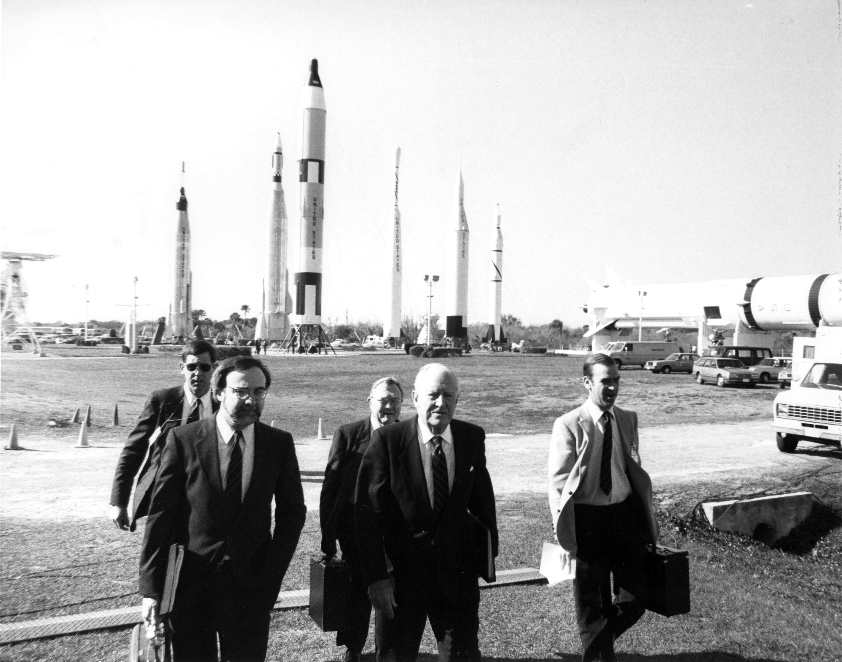 Following the Space Shuttle Challenger accident in January 1986, President Reagan appointed a Presidential Commission to investigate the accident. The fourteen members of the Commission included former Secretary of State William Rogers as chairman, astronauts Sally Ride and Neil Armstrong, and Nobel Prize winner Richard Feynman. After months of investigation, the Rogers Commission identified the cause of failure as an O-ring in the right Solid Rocket Booster that ruptured due to the cold temperatures of the launch. Here, Alton Keel (left), the representative to the Commission from the Executive Office of the President, and chairman William Rogers (center) arrive at the Galaxie Theatre at KSC's Visitor's Information Center for a one day briefing and tour of the NASA facility.